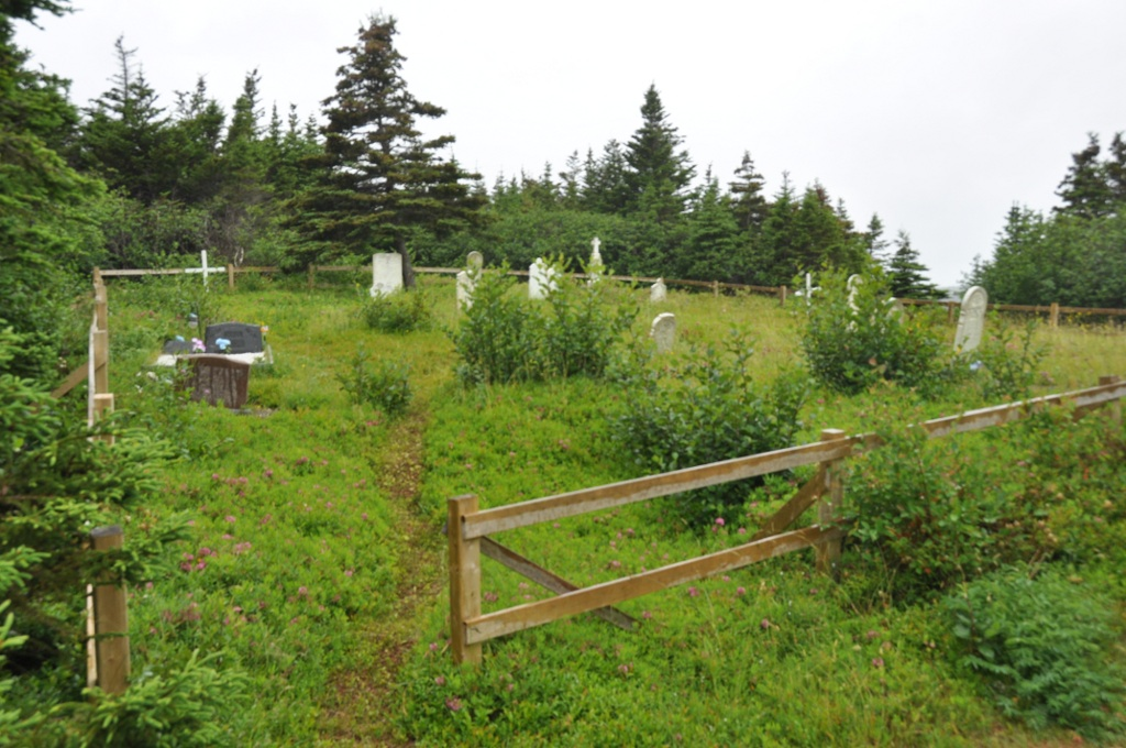 Salvation Army Cemetery Municipal Heritage Site, Arnold's Cove, Newfoundland.